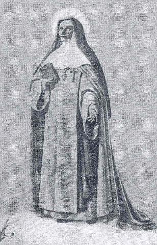 Mary Euphrasia Pelletier (1796-1868)